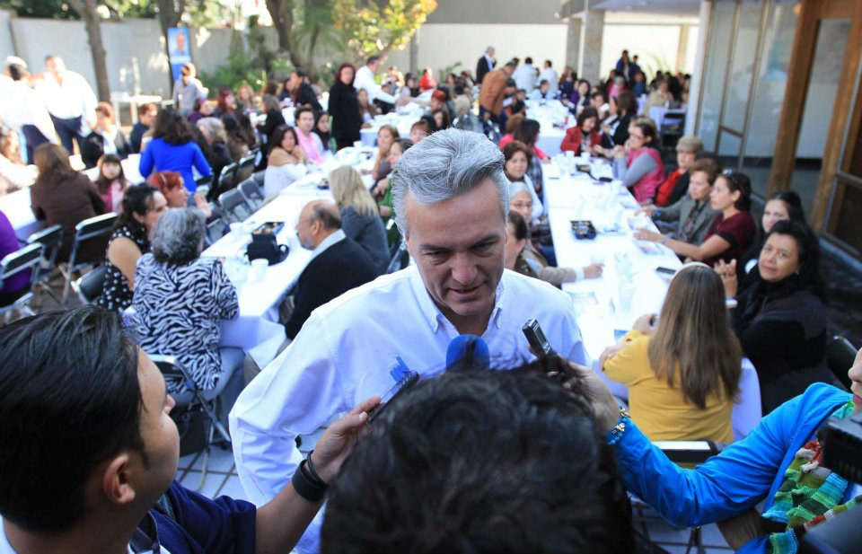 Dr. Alfonso Petersen meets a group of women during his 2012 gubernatorial campaign.